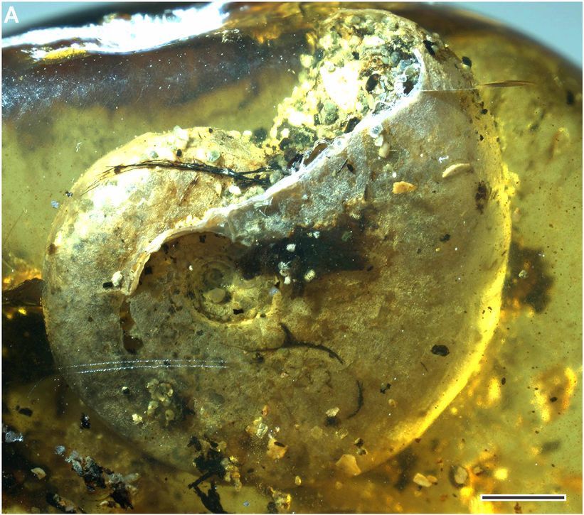 Ammonite Puzosia (Bhimaites) Matsumoto. (A) Lateral view under light microscopy. (Scale bar, 2 mm.) (Figure 2)